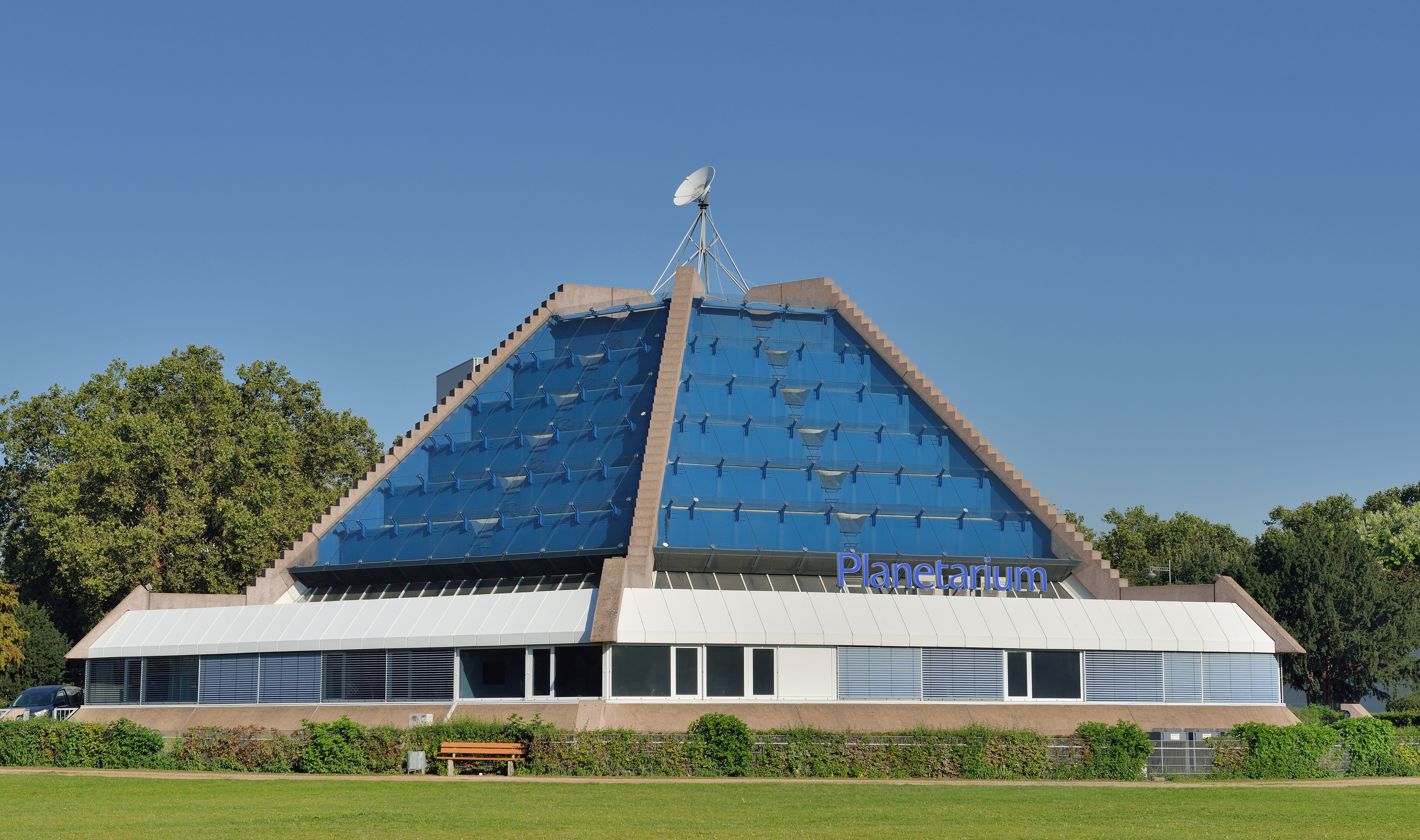 Mannheim: planetarium